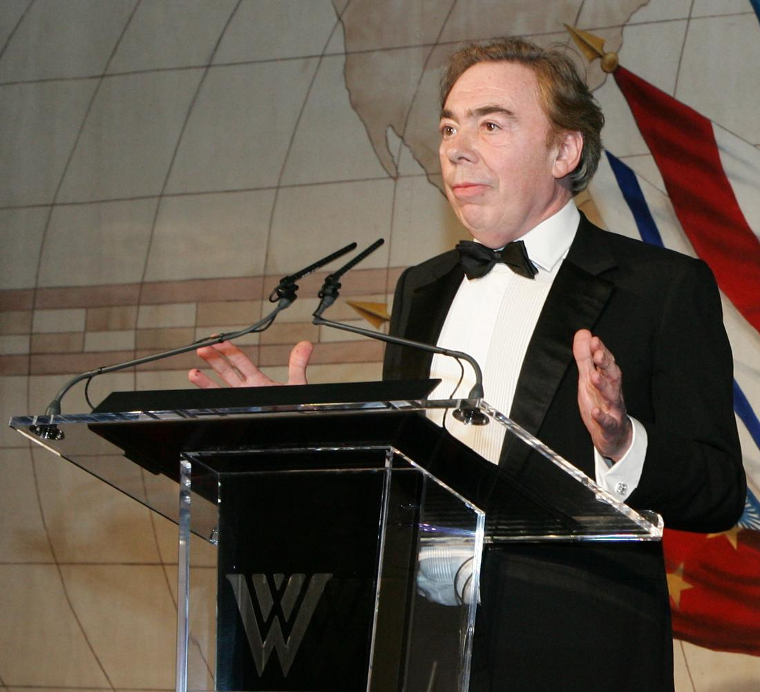 Andrew Lloyd Webber accepts Woodrow Wilson Awards - cropped version.